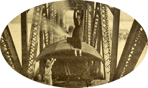 Advertisement in Moving Picture World for the film A Daughter of Daring (1917).